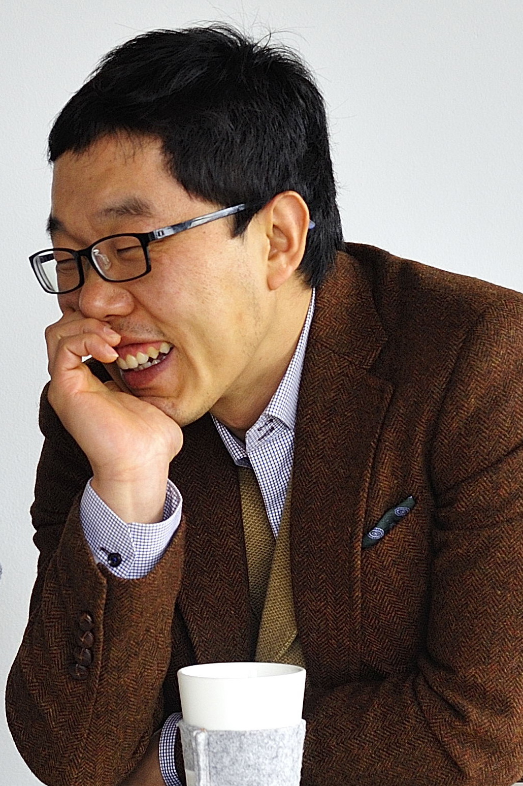 ±èÁ¦µ¿ÀÇ ¶È¶È¶È-¿µÈ­¹è¿ì ÇÏÁ¤¿ì 2012.2.23/Á¤ÁöÀ±±âÀÚ